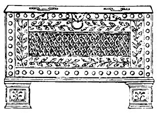 Strongbox from Ancient Rome